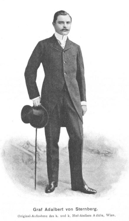 Count Adalbert Sternberg (1868–1930)